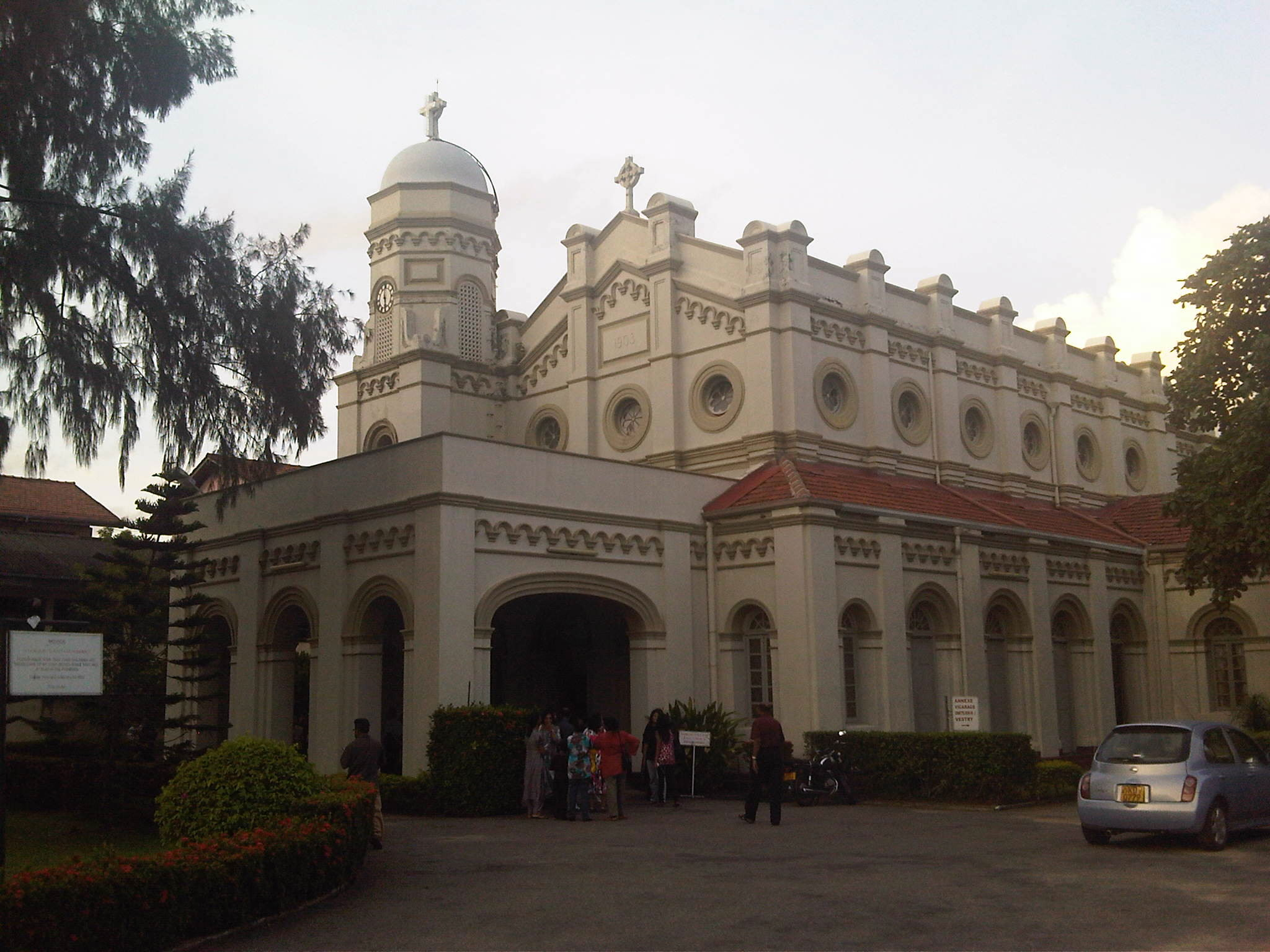 St.Paul's Church, Milagiriya - one of the oldest churches in Sri Lanka under the Church of Ceylon.